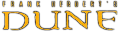 Logotype for the television series Frank Herbert's Dune.